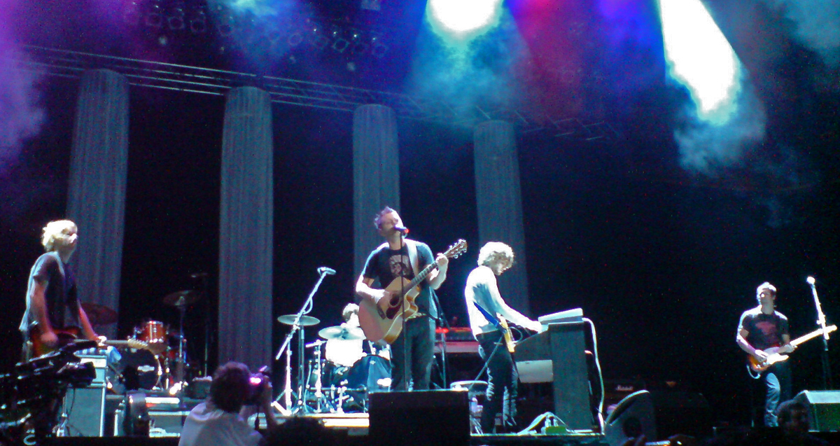 Photo of OneRepublic live at the Burswood Dome, Perth, Western Australia